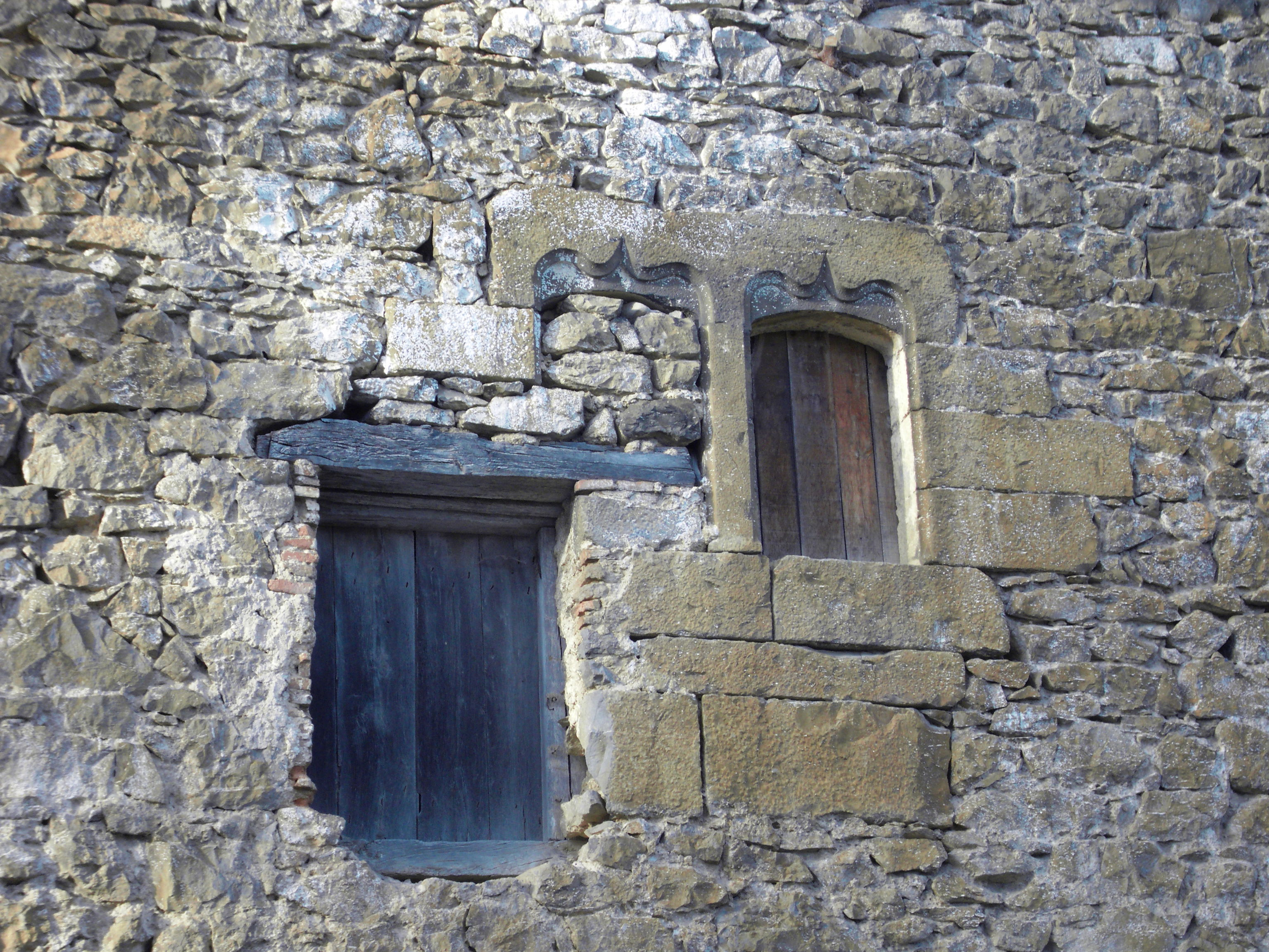 Santa Marina Haundi farm house, Albiztur (Guipuscoa, Basque Country)